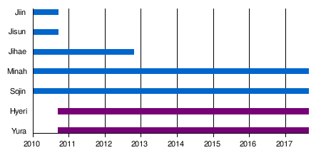 Girl's Day Member Timeline 2017